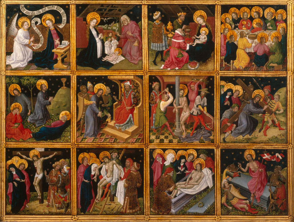 Image from File:12-scenes-from-life-of-Christ-Cologne.jpeg